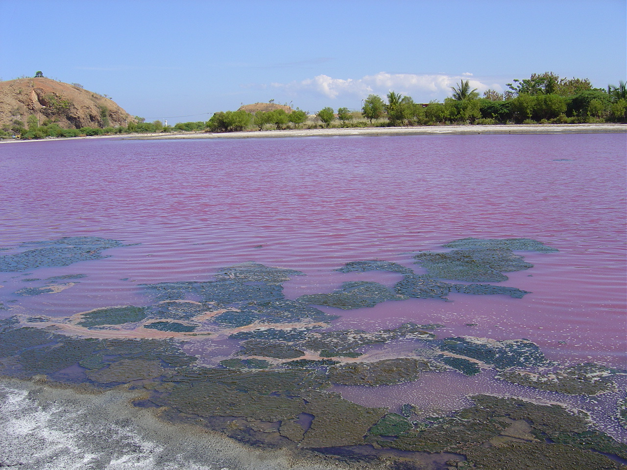 In some years (1975 - 1999 - 2006), the water of Tasitolu lakes becomes red.